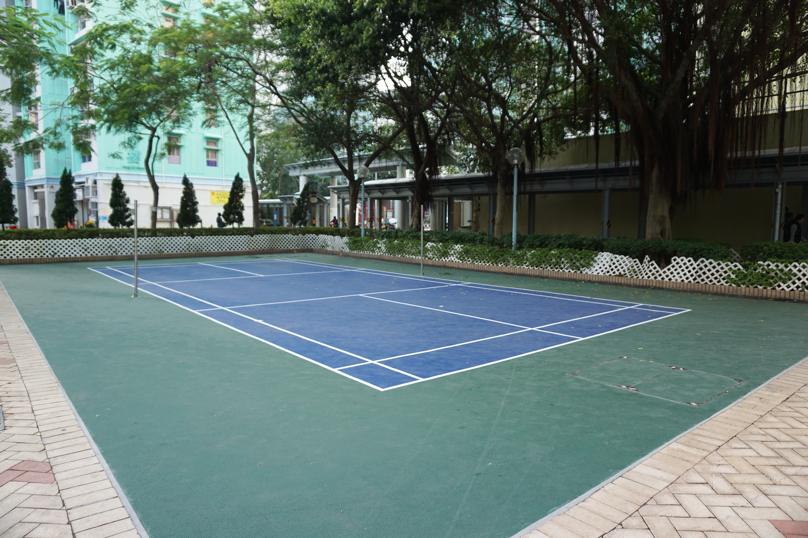 Tin Heng Estate in Tin Shui Wai, Hong Kong.